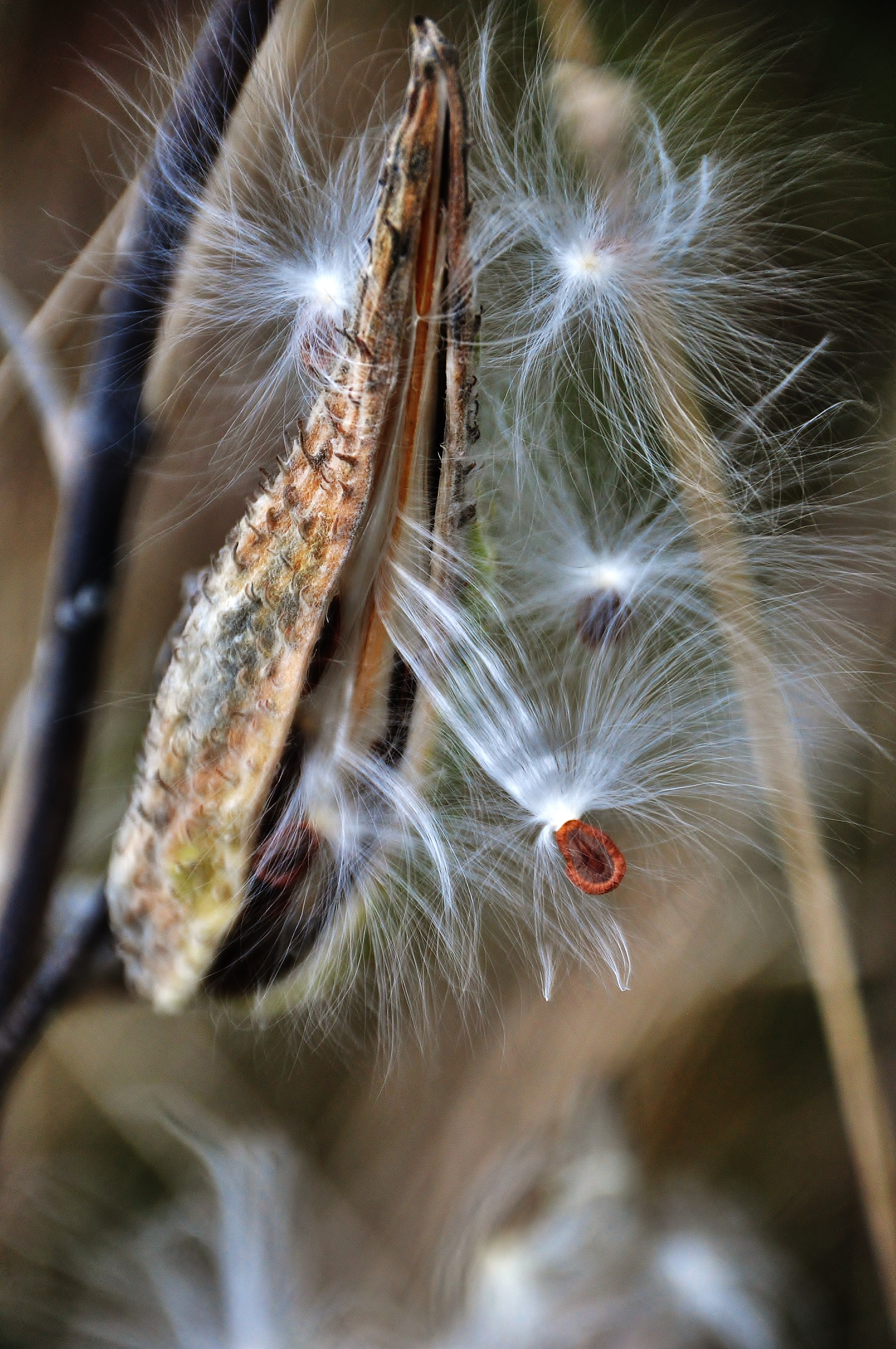 Asclepias syriaca seeds in October. Ontario, Canada